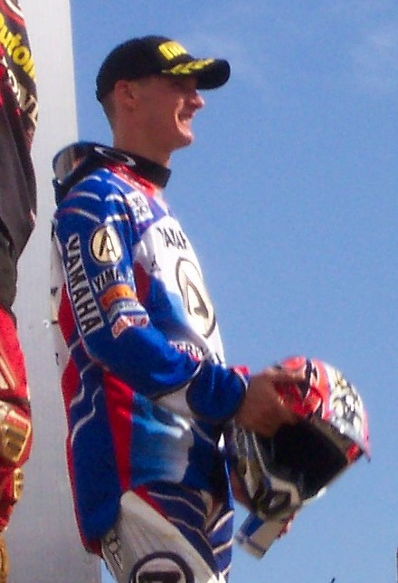 Stefan Everts, on the podium of the MX1 class at the 2004 British MX Grand Prix at Arreton Basin on the Isle of White